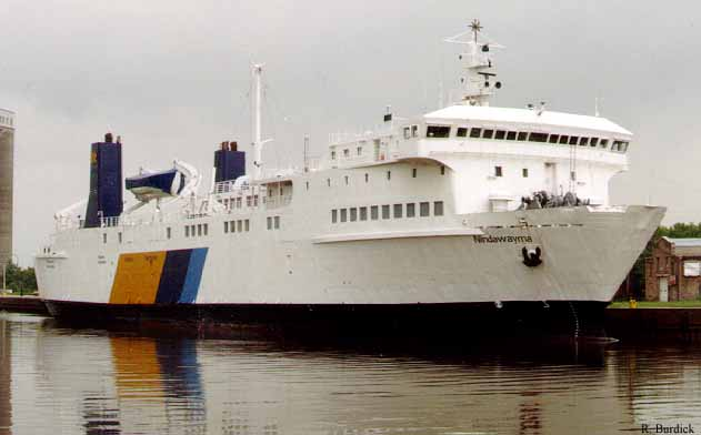 MS Nindawayma in Ontario Northland colors